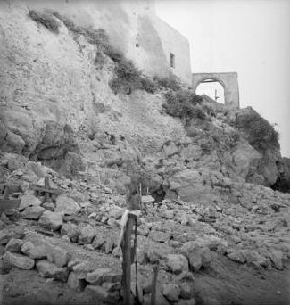 Feature at Takrouna, Tunisia, during World War II. Photograph taken on 1 June 1943 by M D Elias. Elias, M D, fl 1943. Feature at Takrouna, Tunisia - Photograph taken by M D Elias. New Zealand. Department of Internal Affairs. War History Branch :Photographs relating to World War 1914-1918, World War 1939-1945, occupation of Japan, Korean War, and Malayan Emergency. Ref: DA-02202-F. Alexander Turnbull Library, Wellington, New Zealand.